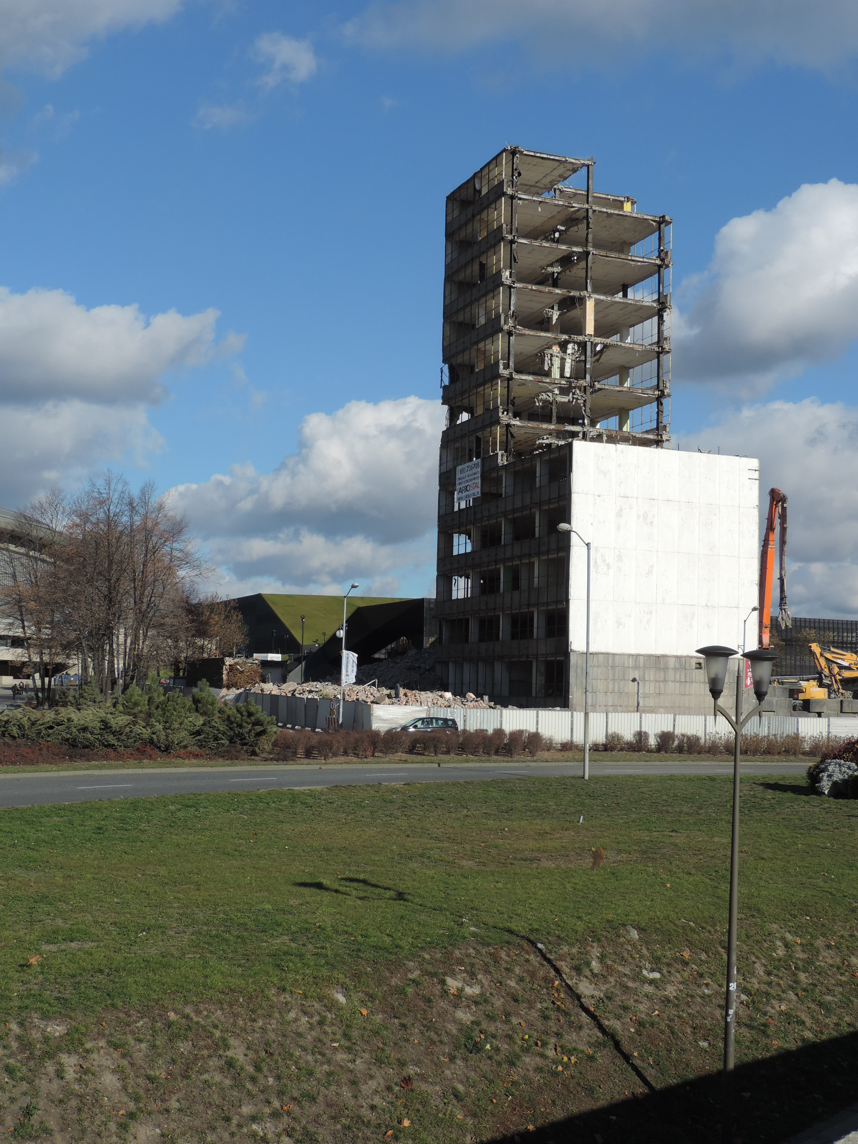 DOKP skyscraper in Katowice in demolition - 8.11.2015